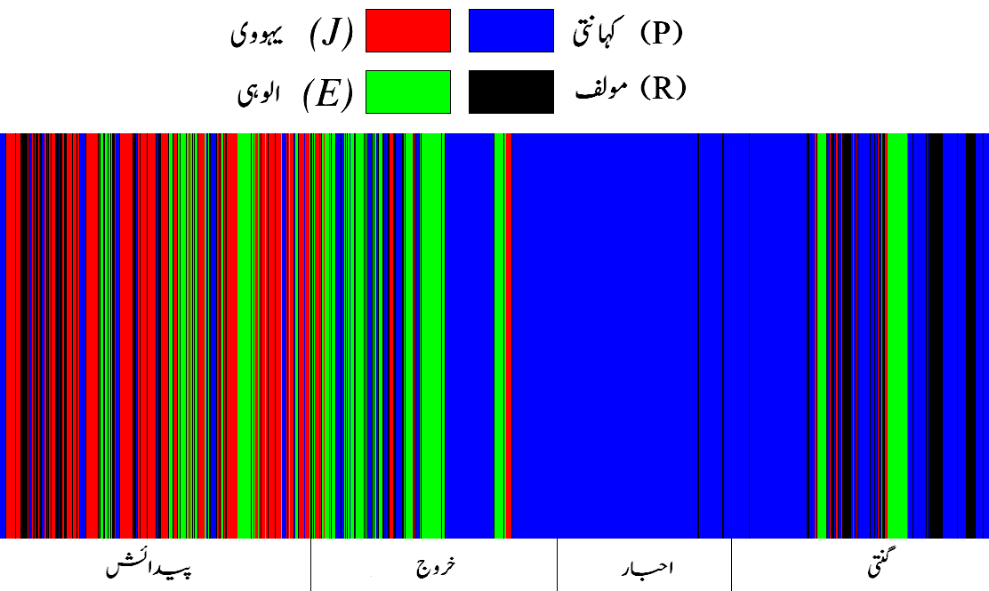 The distribution of the sources of the first four books of the bible, according to the documentary hypothesis